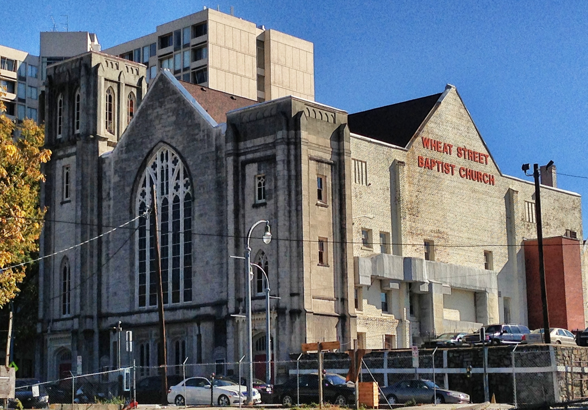 Wheat Street Baptist Church